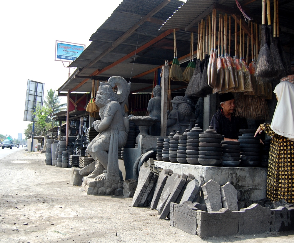 Stone artshop at roadside of Muntilan, Magelang, Central Java.